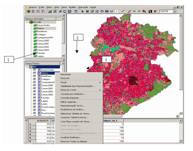 Terraview map (example)